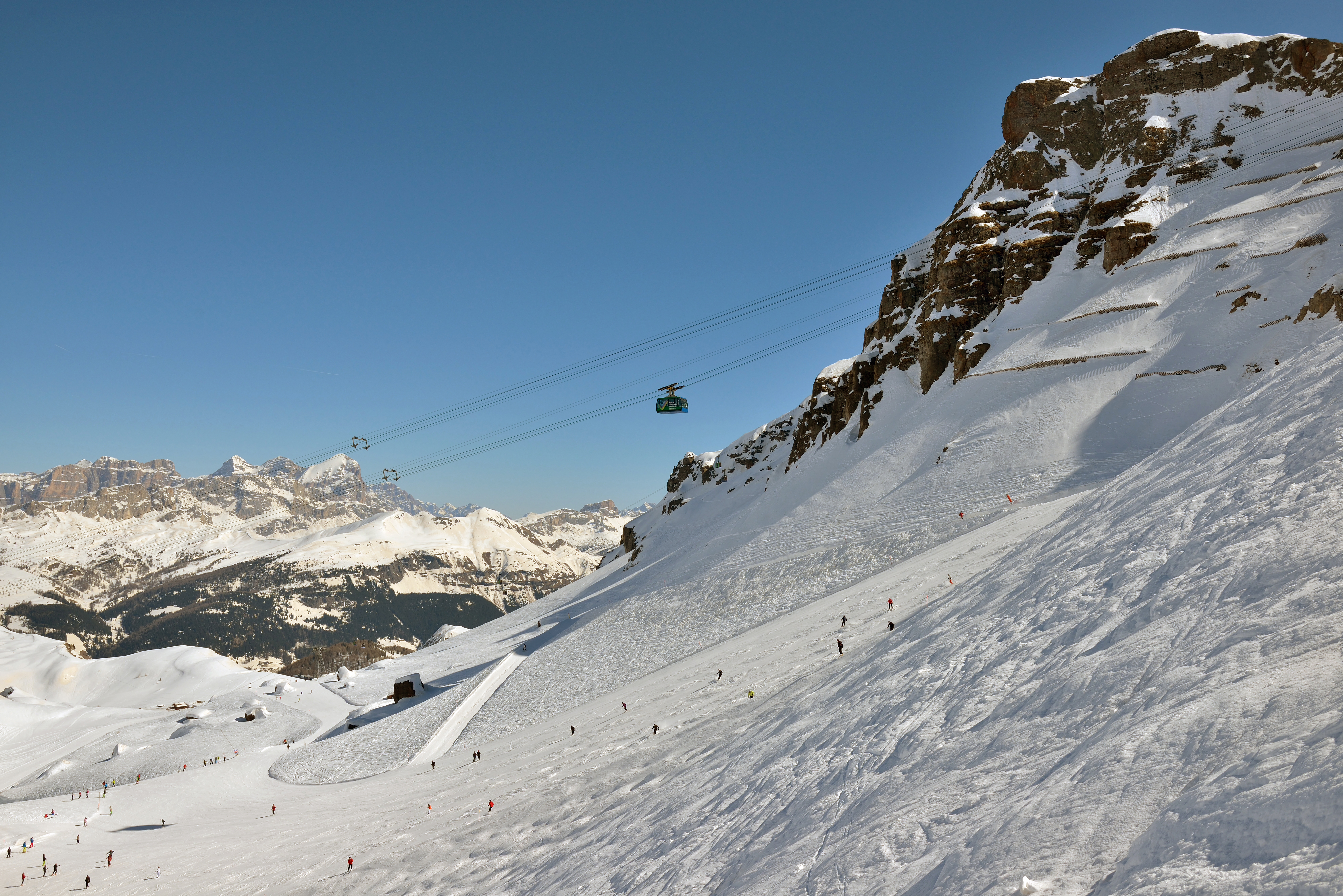 Cablecar type Funifor Arabba Porta Vescovo